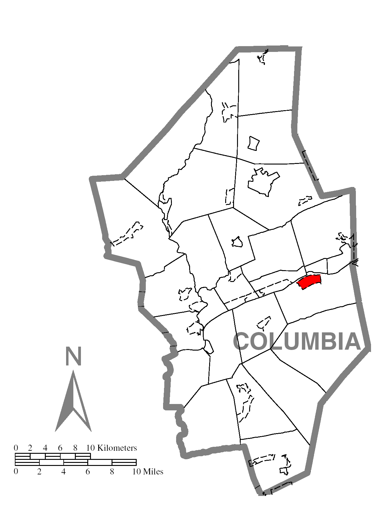 A map of Columbia County showing Mifflinville, Pennsylvania (alternate) highlighted on the map.